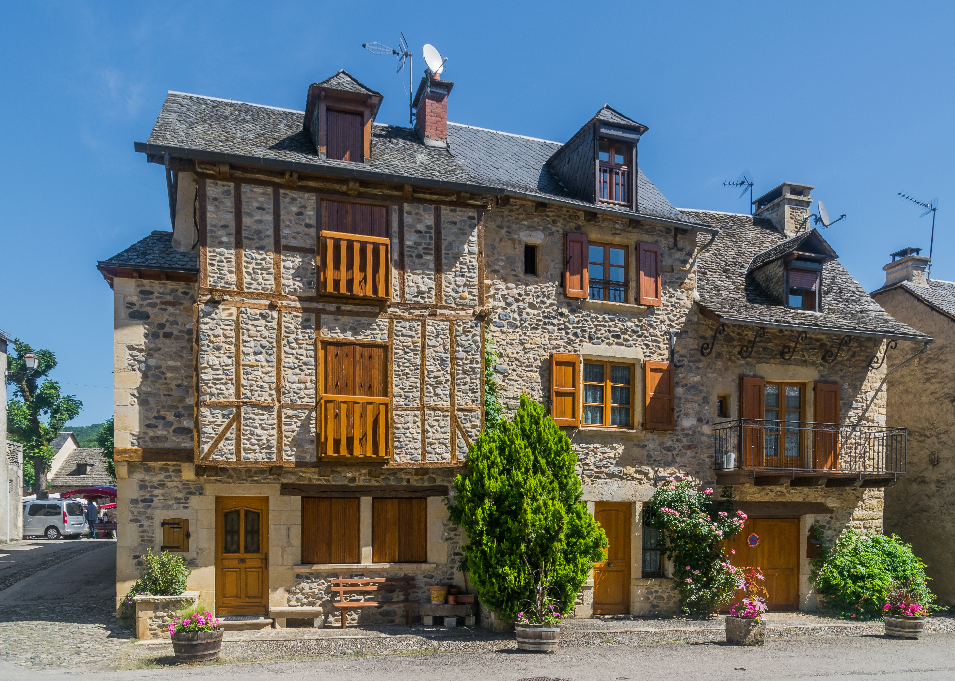 Building at rue de la Traverse in Sainte-Eulalie-d'Olt, Aveyron, France